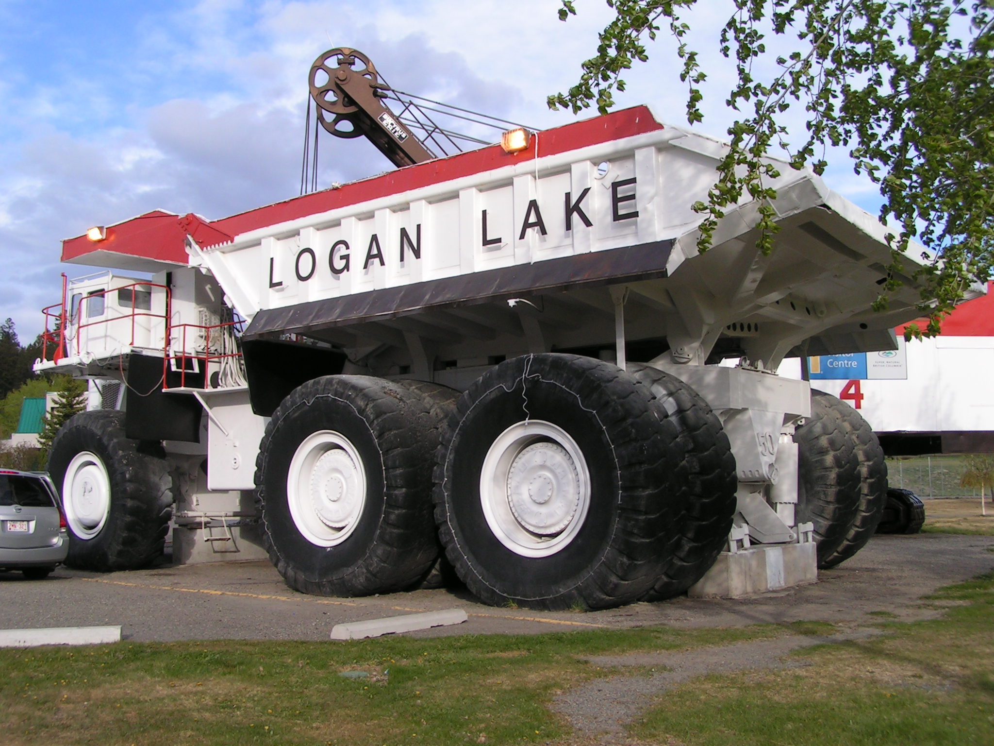 Wabco Haulpak 3200B Electric haul truck Engine : 645cid x 12 cylinders - 2 stroke - 2500 Hp H: 19' 11" W: 24' 1" L: 54' 3" Gross Weight: 844,600 lbs Payload: 470,000 lbs